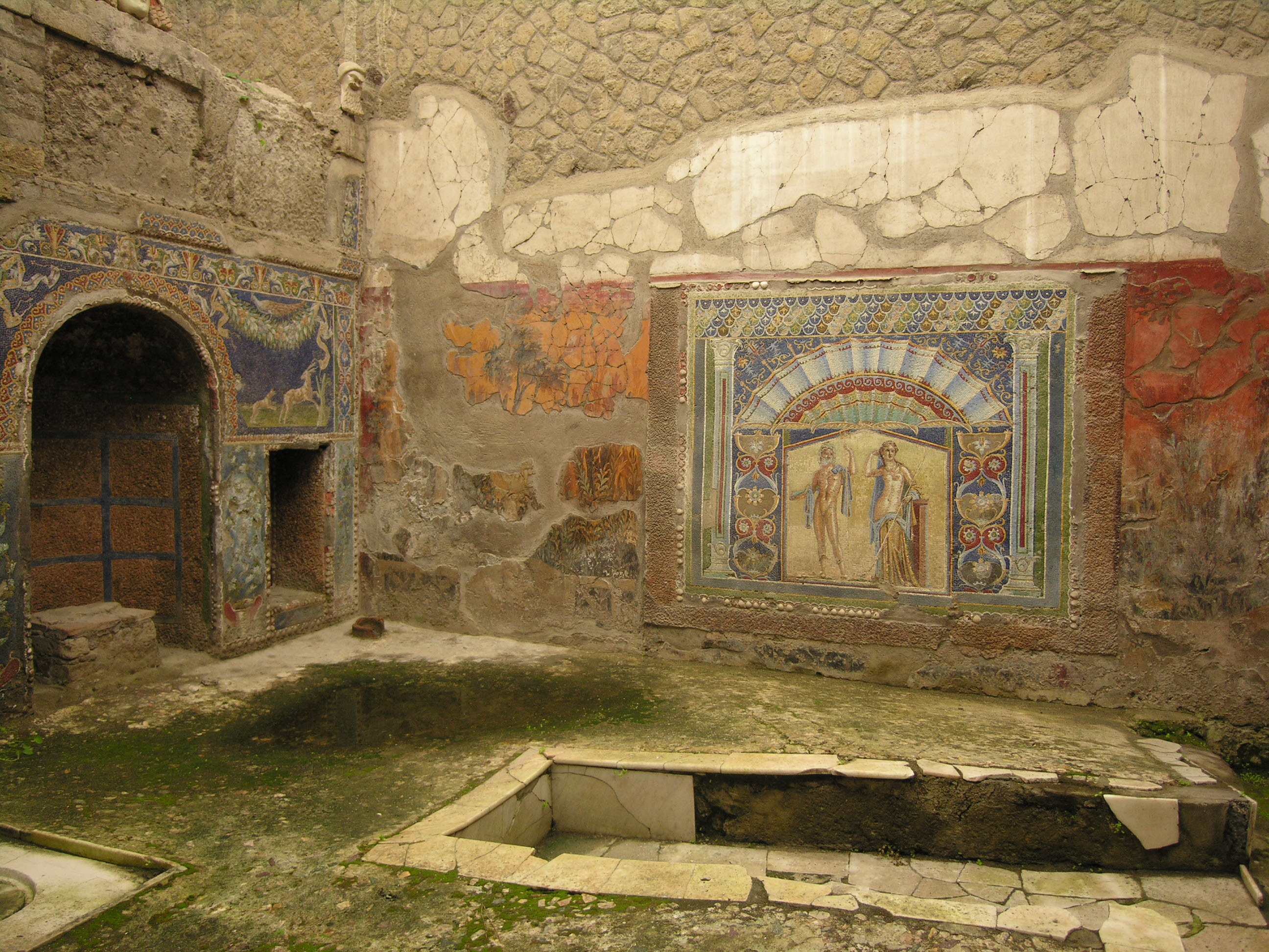 Herculaneum. Ancient Roman mosaic with Neptune and Amphitrite, on display in the "House of Neptune and Amphitrite" (# 22).